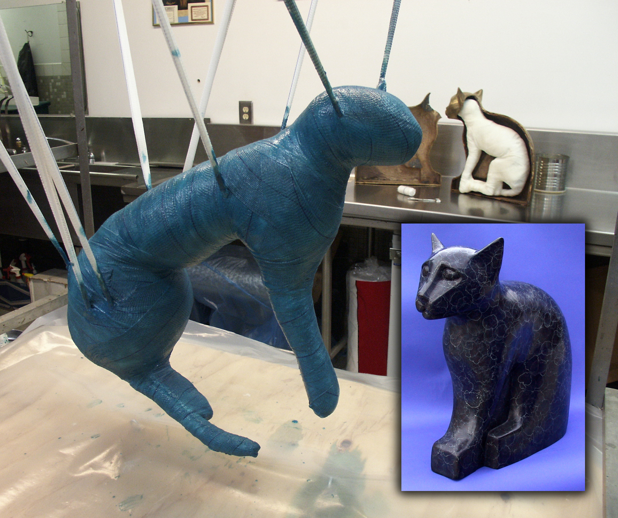 The foreground shows a cat undergoing Summum's modern mummification process. The cat's wrappings are receiving coats of polyurethane. In the background, another cat is being fitted into a sculpted bronze Mummiform®. The inset shows a finished cat mummiform containing a cat mummy. A marble patina finish coats the mummiform's surface.